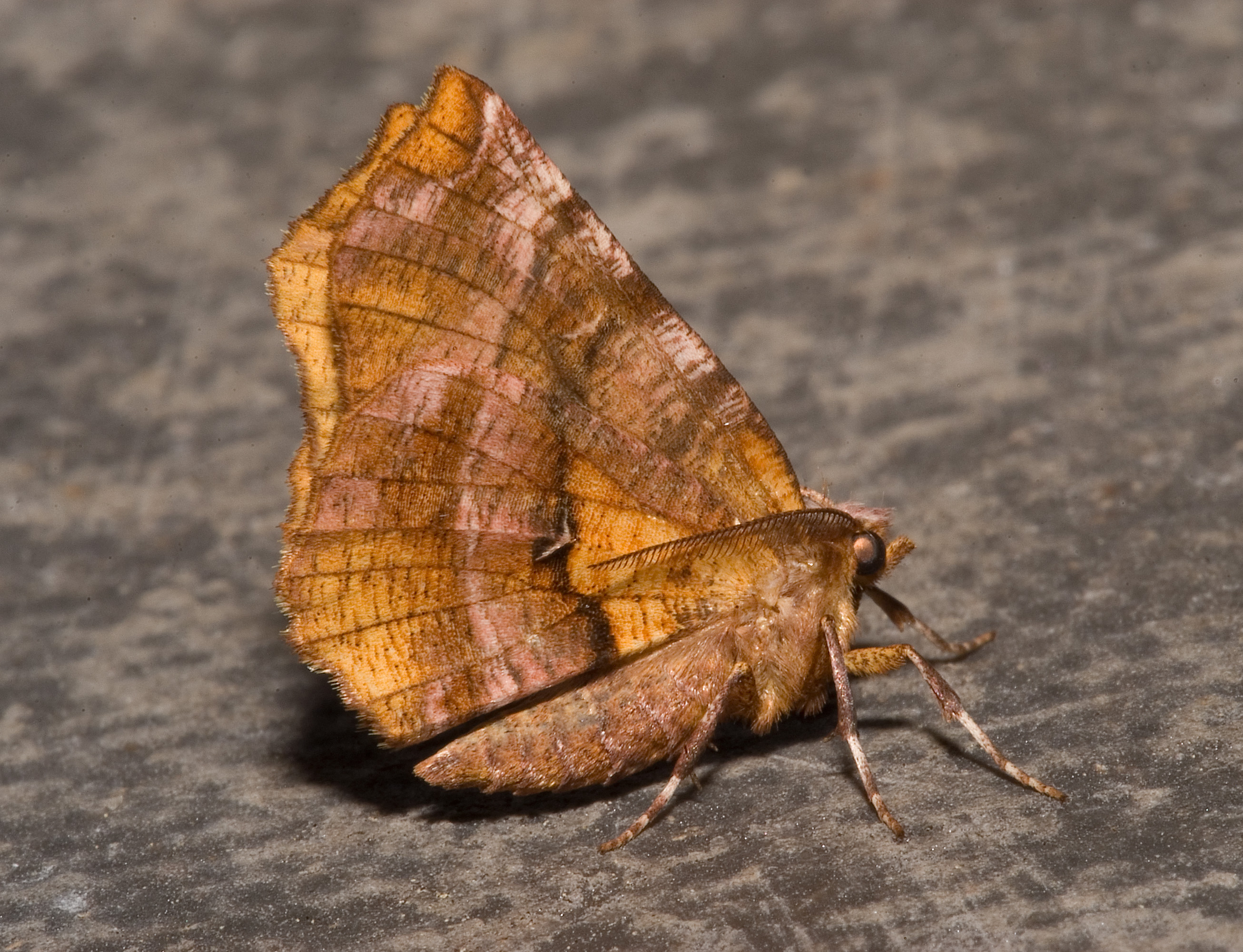 Please report references to kulacgmx.at.